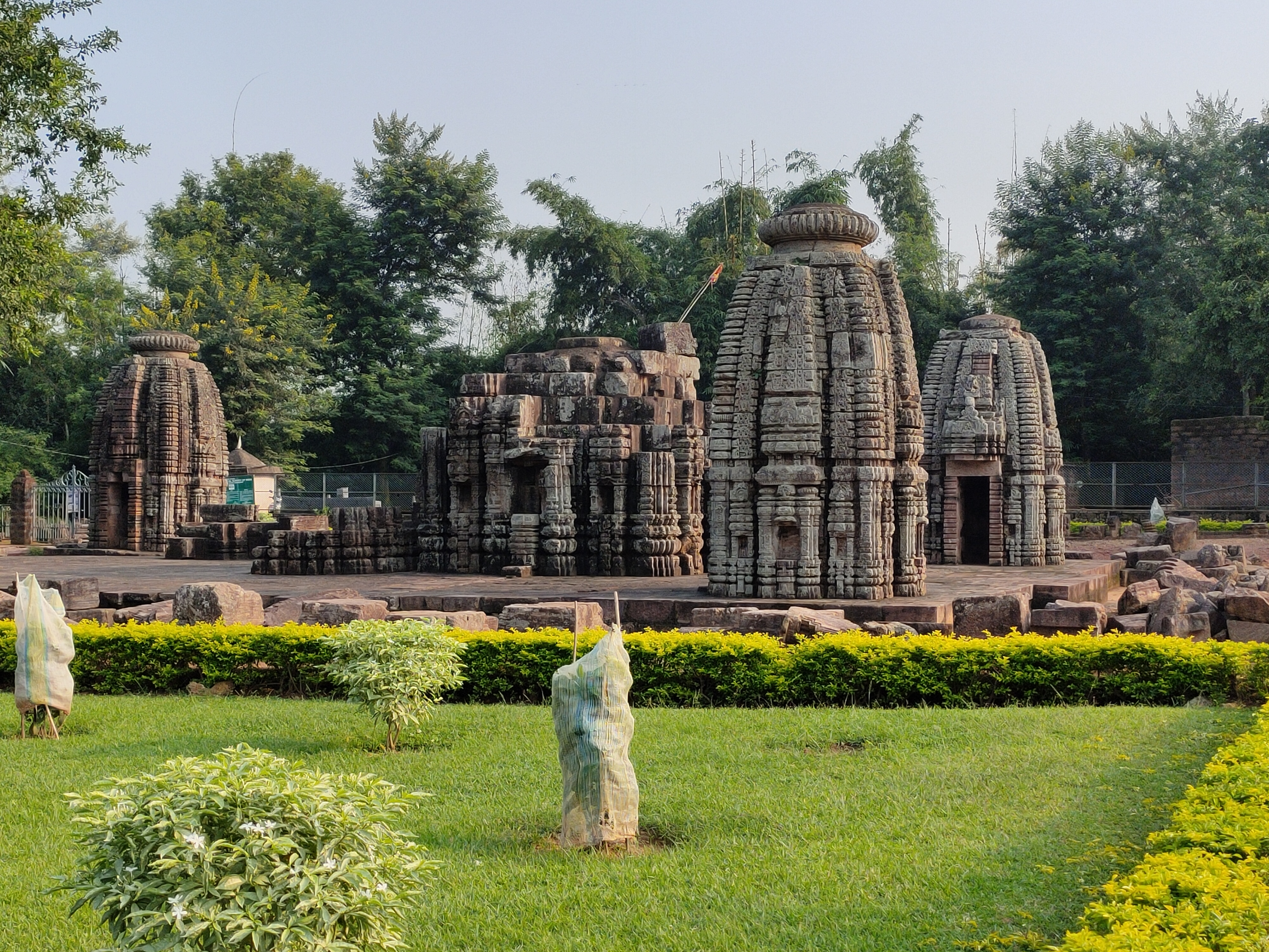 Pancha Pandava temple